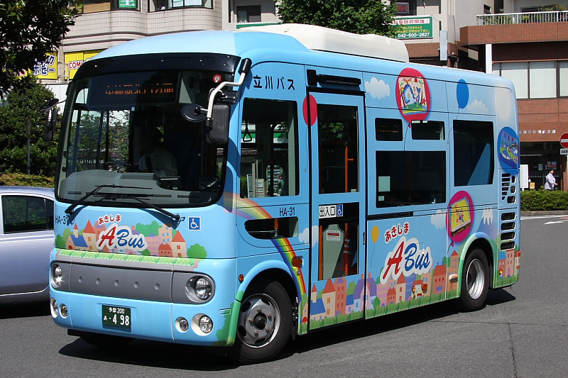 Tachikawa Bus's route bus for Akishima A-Bus North Route (Car No.HA-31 / Hino Poncho BDG-HX6JHAE / J-BUS body) at Akishima Station South Exit, Akishima, Tokyo, Japan